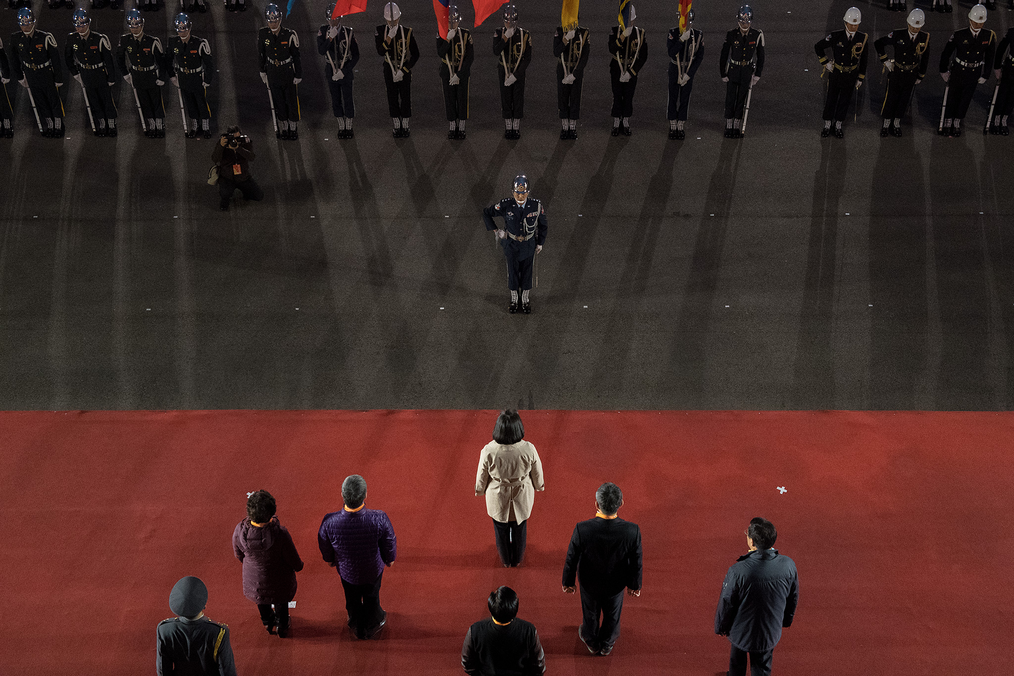 授權方式及範圍： 中華民國總統府│政府網站資料開放宣告 Authorization Method & Scope: Office of the President, Republic of China (Taiwan) | Government Website Open Information Announcement